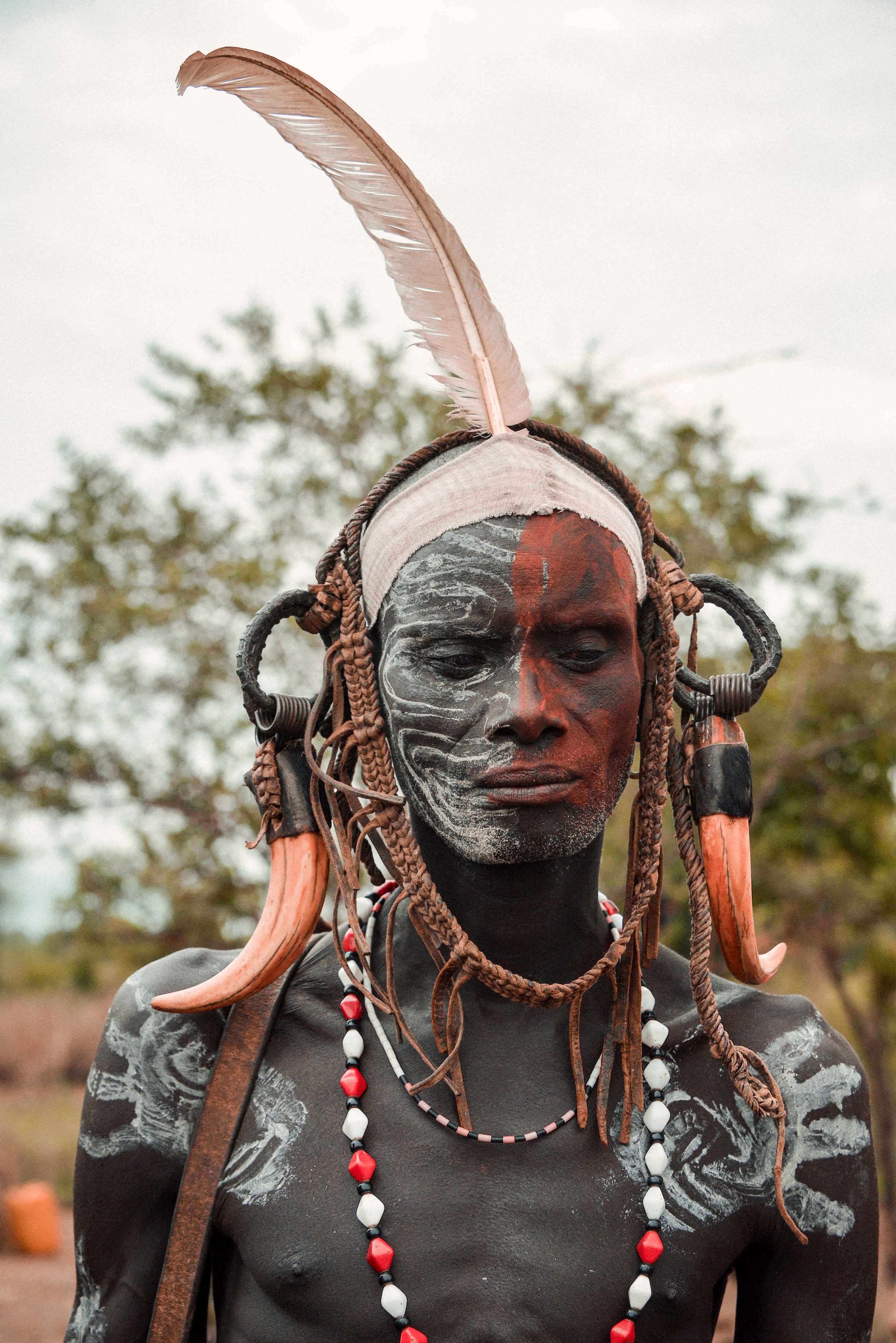 Mursi Warrior